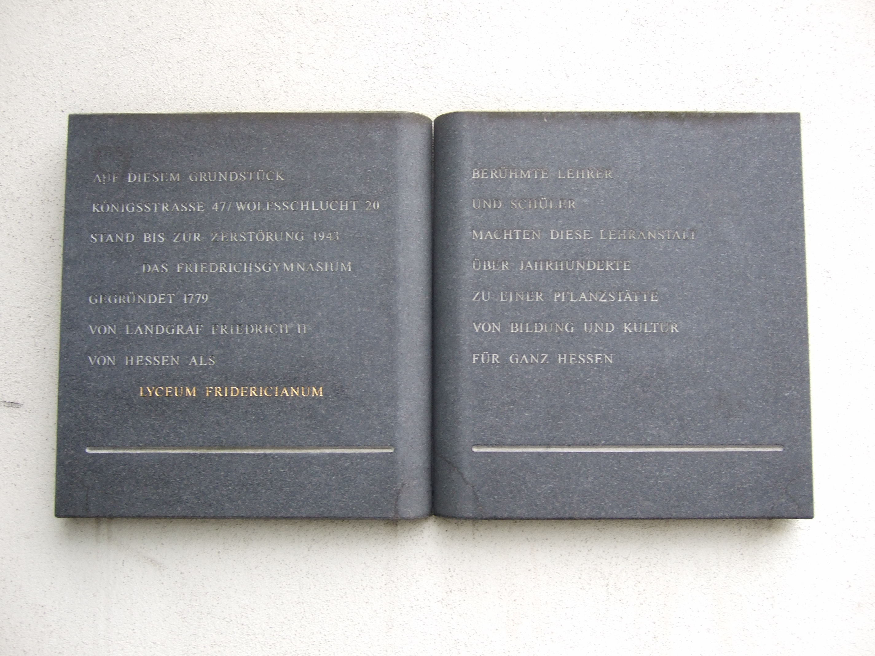 Memorial table Friedrichsgymnasium Kassel